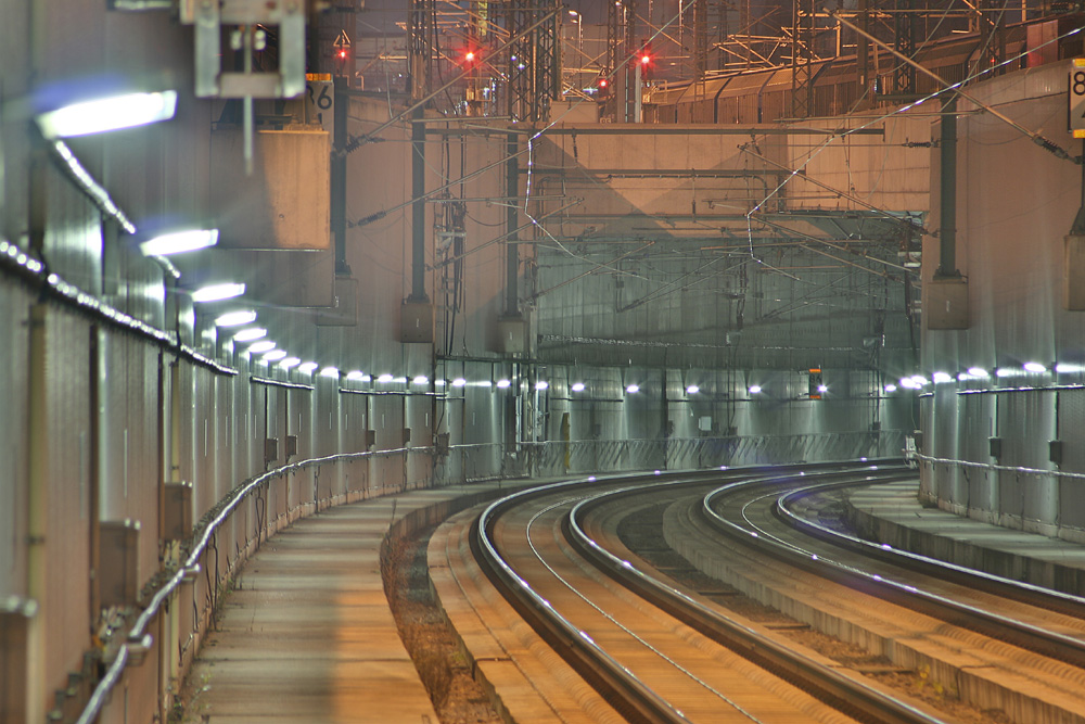 The ramp leading to the south entrance to the Audi Tunnel, Nuremberg–Ingolstadt high-speed railway line